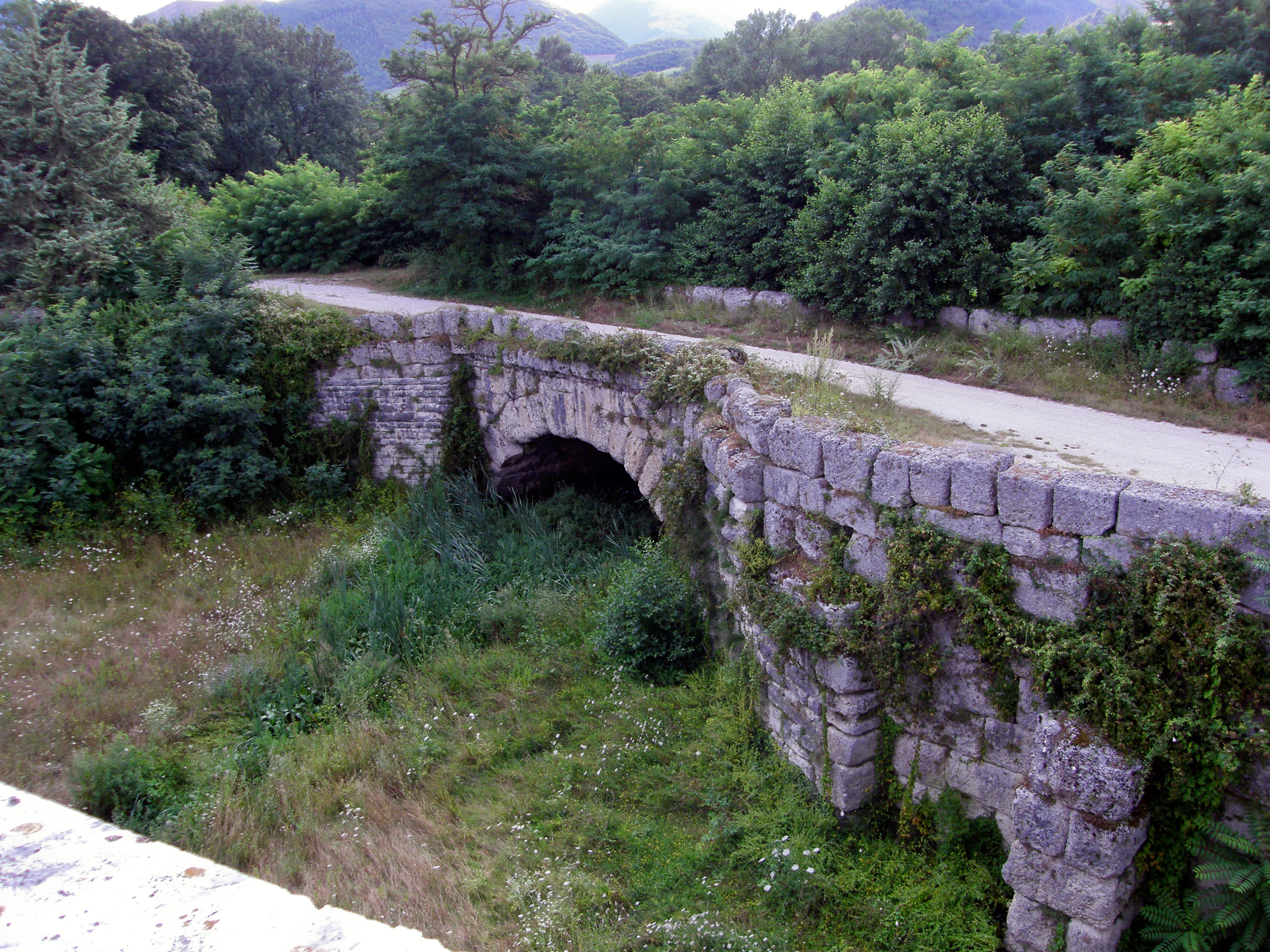 Mallio bridge Cagli, Marche, Italy; It's a roman bridge of the ancient Via Flaminia